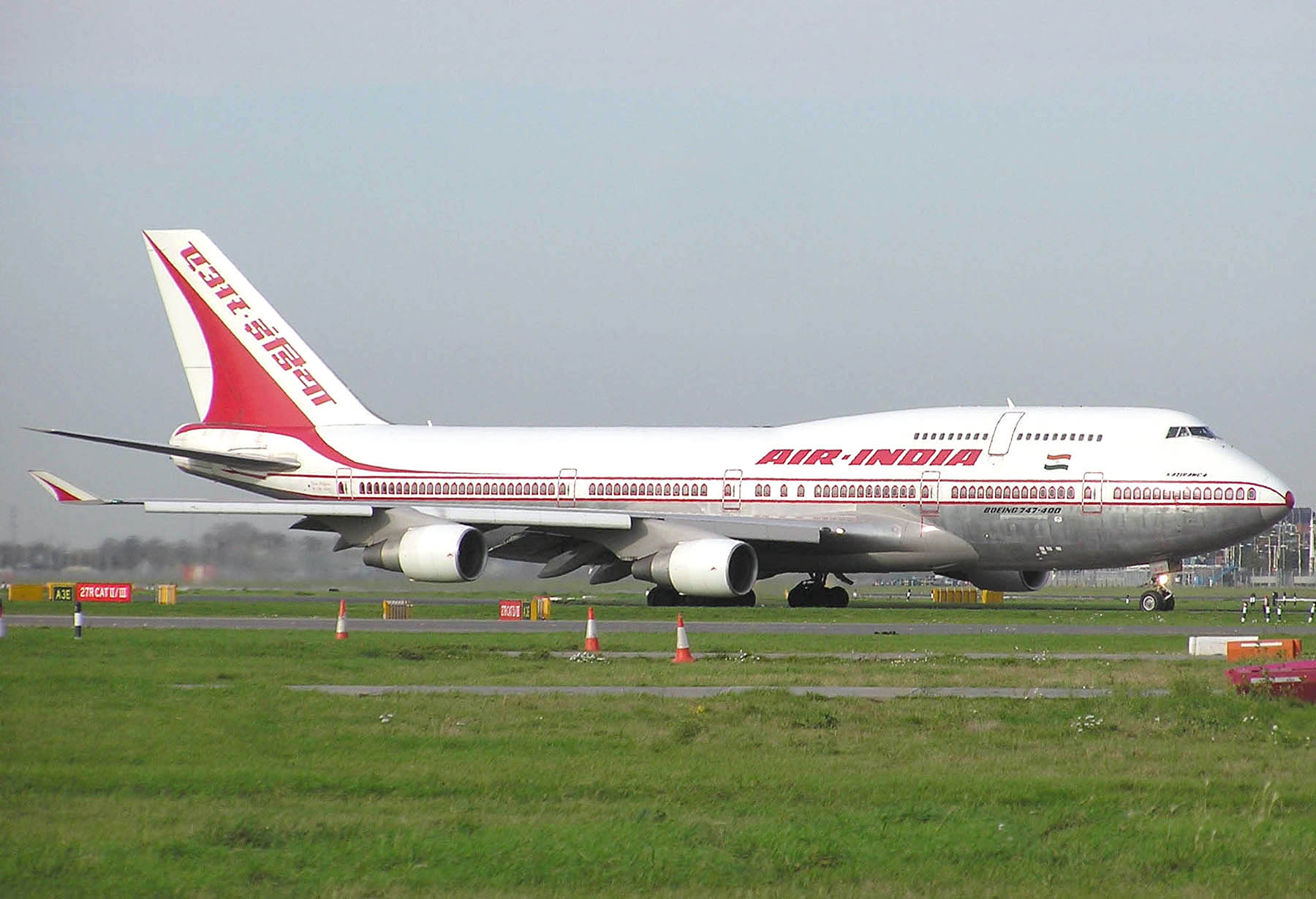 Air India Boeing 747-400 (VT-AID, named Kaziranga) queueing for take off at London Heathrow Airport, England. Photographed by Adrian Pingstone in November 2005 and released to the public domain.